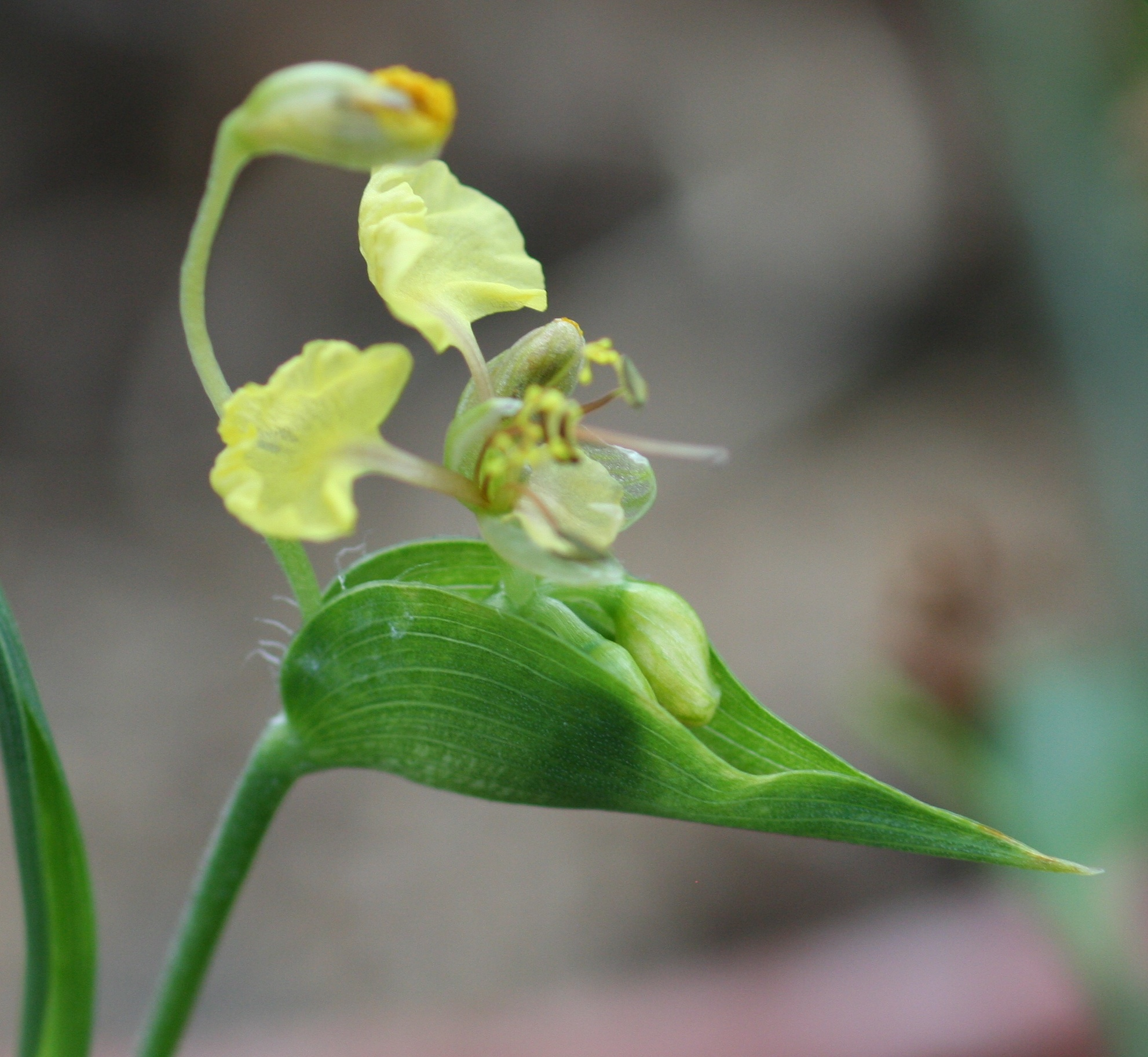 Photograph of the spathe and inflorescence of Commelina welwitschii. This plant is was originally collected in Zimbabwe with the collection number Faden & Drummond 97/24, but was later grown in the Smithsonian research greenhouses in Suitland, Maryland.